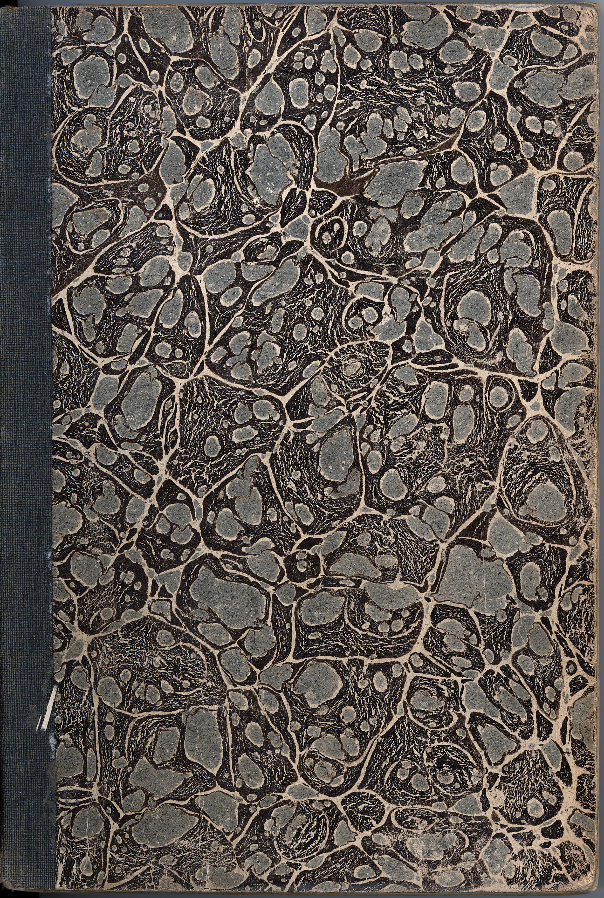 Marbled paper from the cover of a handbound copy of Orelli’s editio minor of Horace’ Works, printed in Zürich in 1843. It’s hard to say when the copy was bound; the first owner notice dates to 1882, therefore the binding (and the creation of the marbled paper) must have happenend between 1843 and 1882.